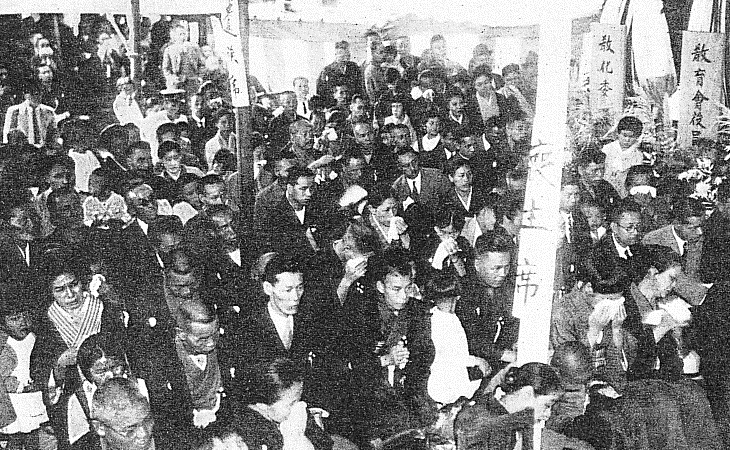 Memorial service for victims of Typhoon Muroto